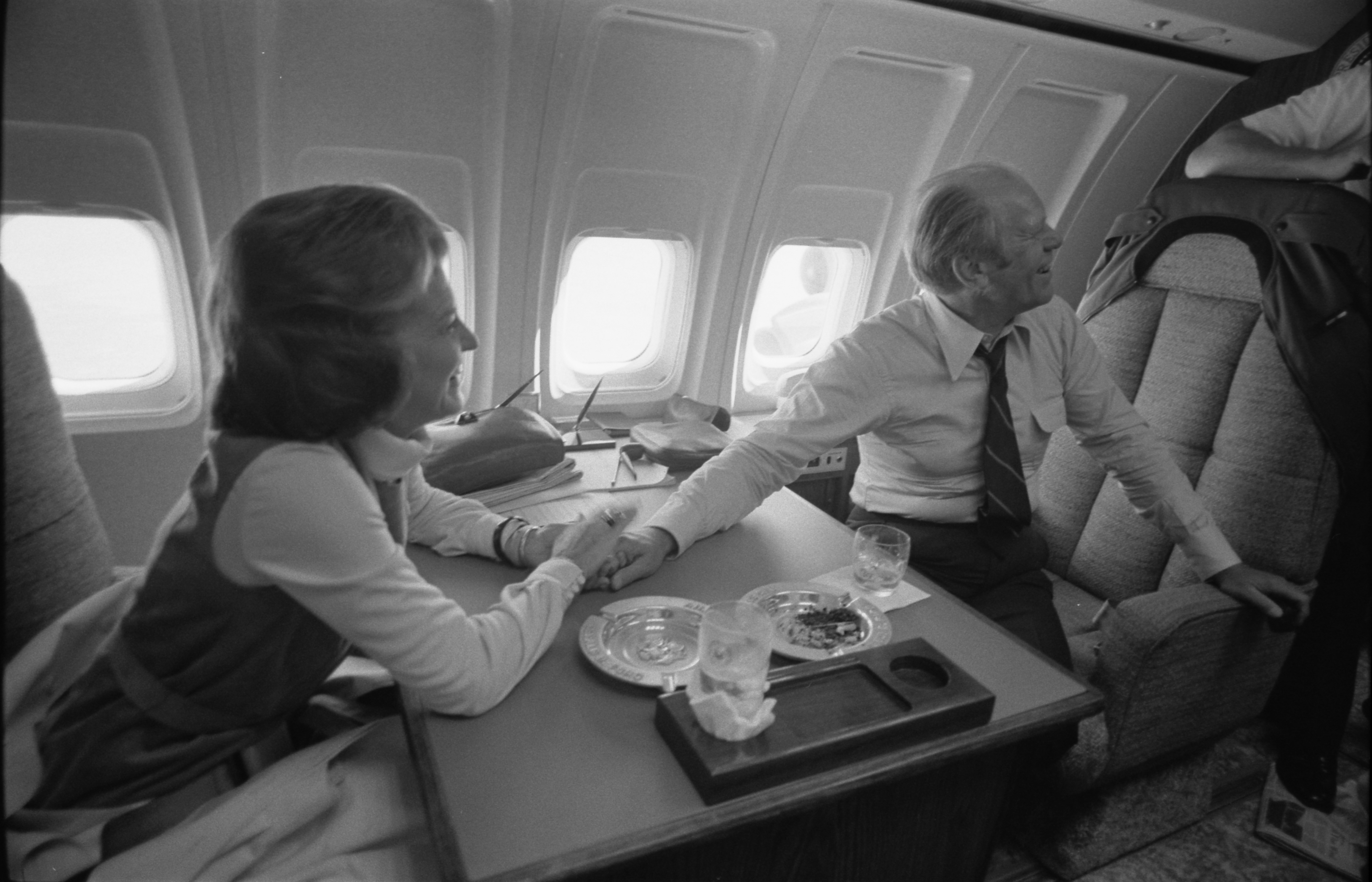 First Lady Betty Ford, still unaware of the assassination attempt, greets President Gerald Ford for the trip back to Washington.